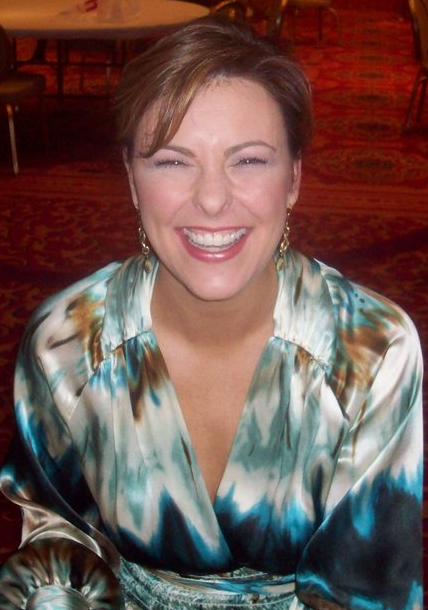 Nicole Johnson, Miss America 1999, signing autographs at a Miss America 2008 event.